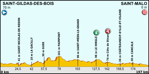 Tour de France 2013 - Profile Stage No. 10